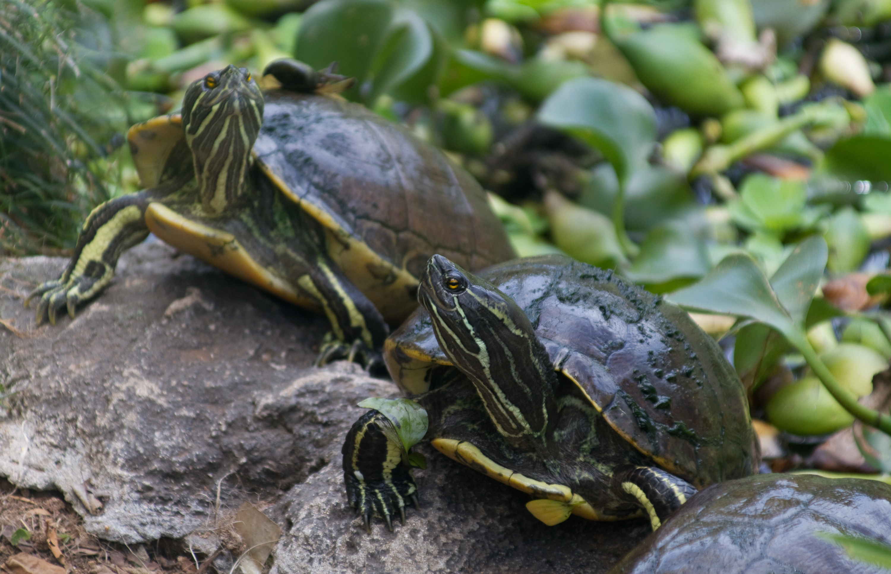 The Haitian Slider, Hispaniolan Elegant Slider, Hispaniolan Slider, or Jicotea (Trachemys decorata).